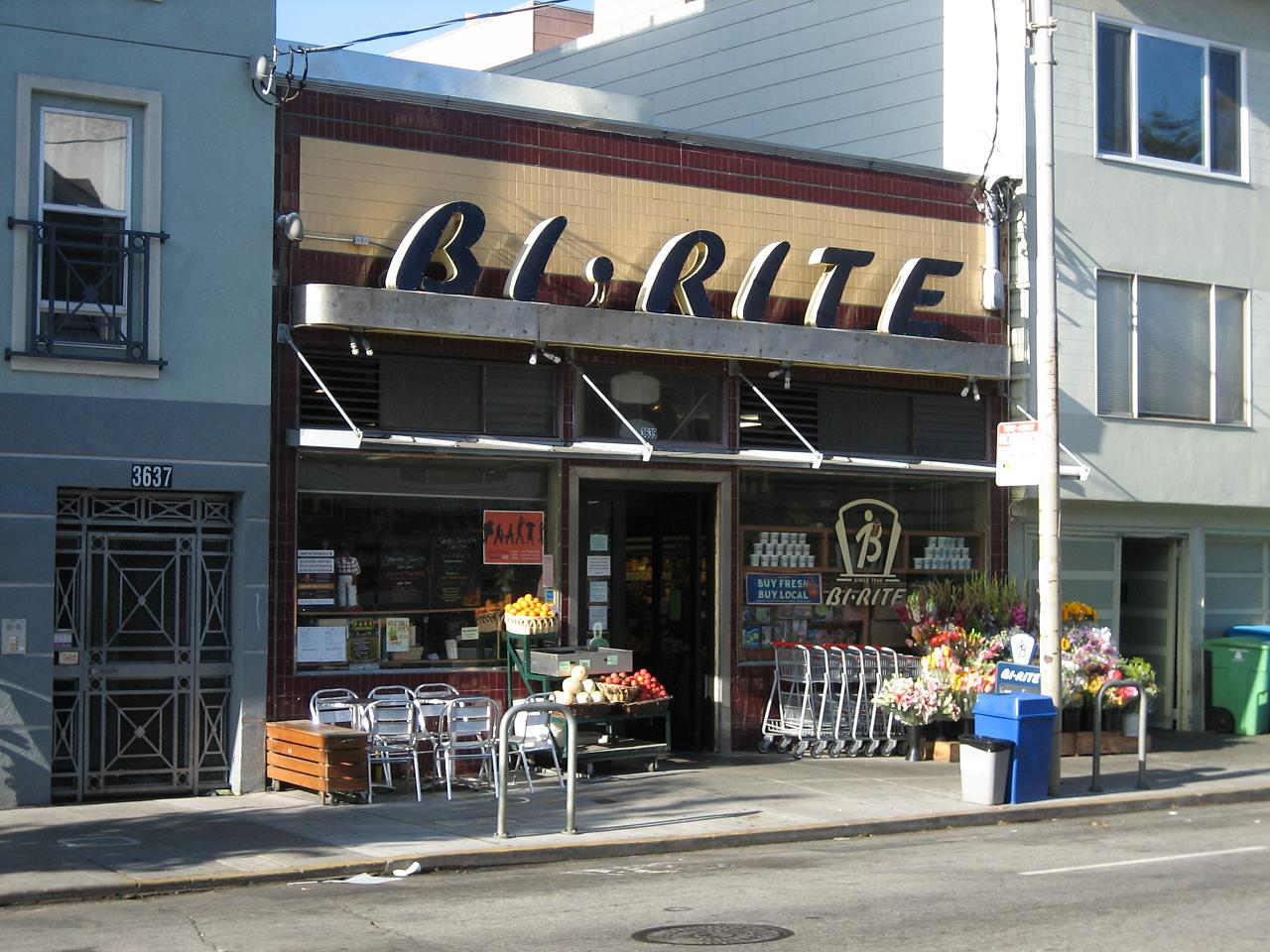 Bi-Rite Market is a grocery store in San Francisco owned and operated by chef Sam Mogannam, who had previously worked at Jardinière in SF. He and his brother Raphael took over the grocery store from his family in 1997, and began to sell prepared foods, using locally grown produce, which he strongly advocates.